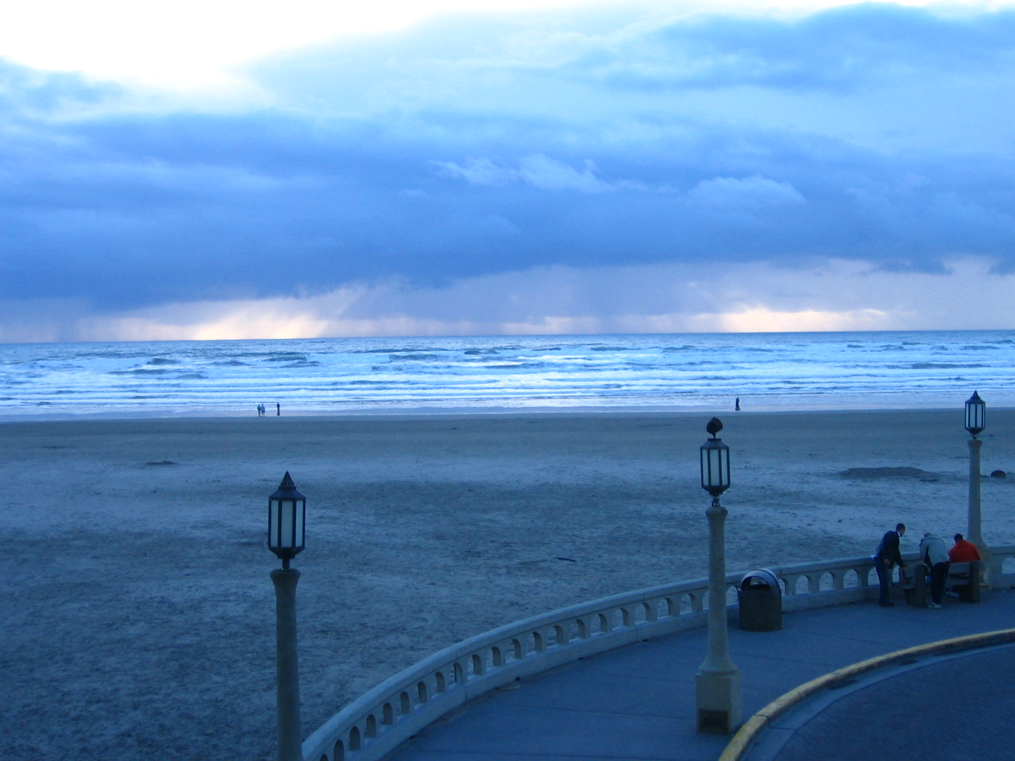 Seaside Oregon United States